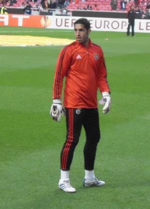 José Moreira, SL Benfica vs. VfB Stuttgart, 17th February 2011.